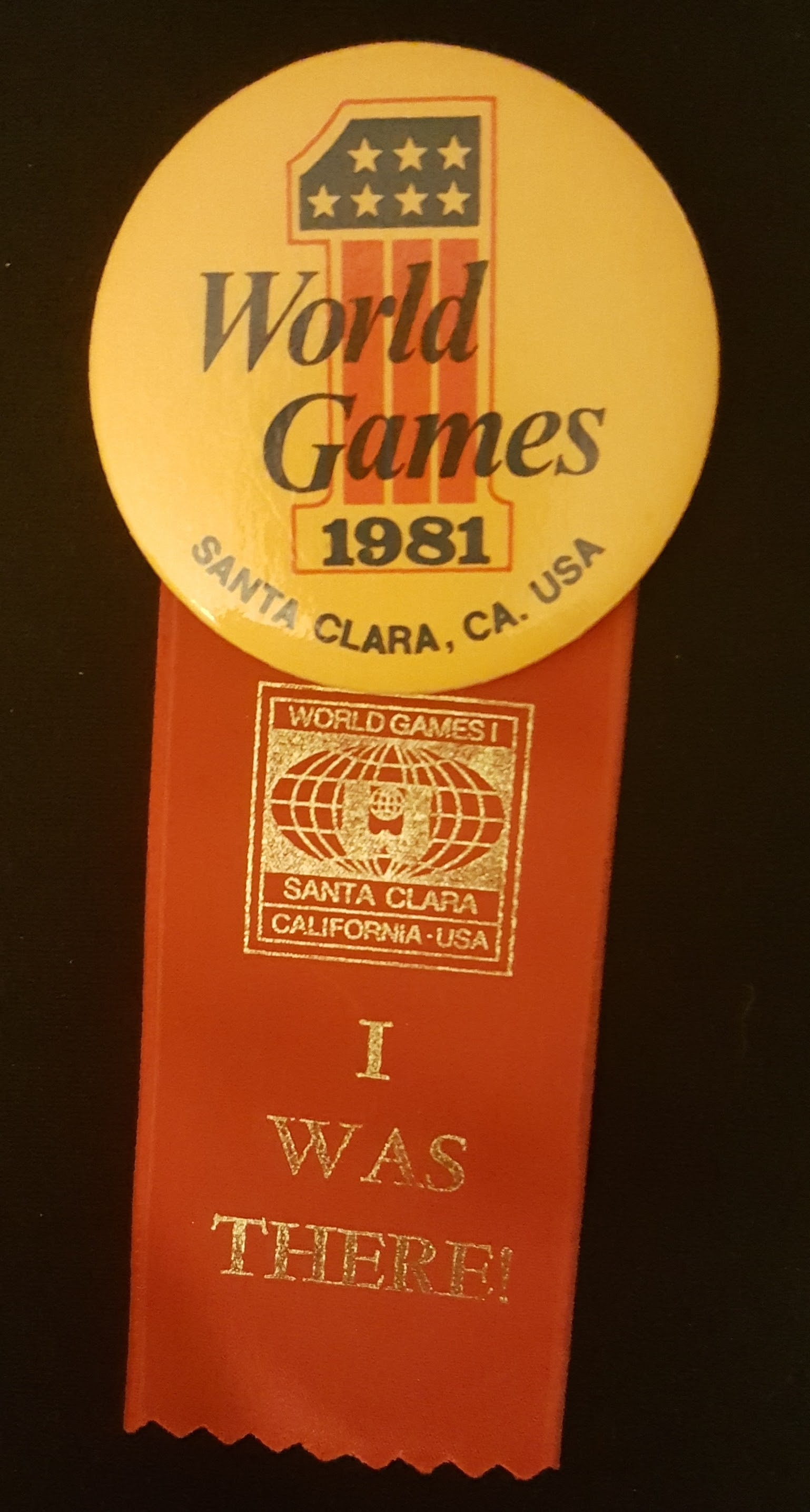 photo of World Games I souvenir button from 1981, Santa Clara, California, USA